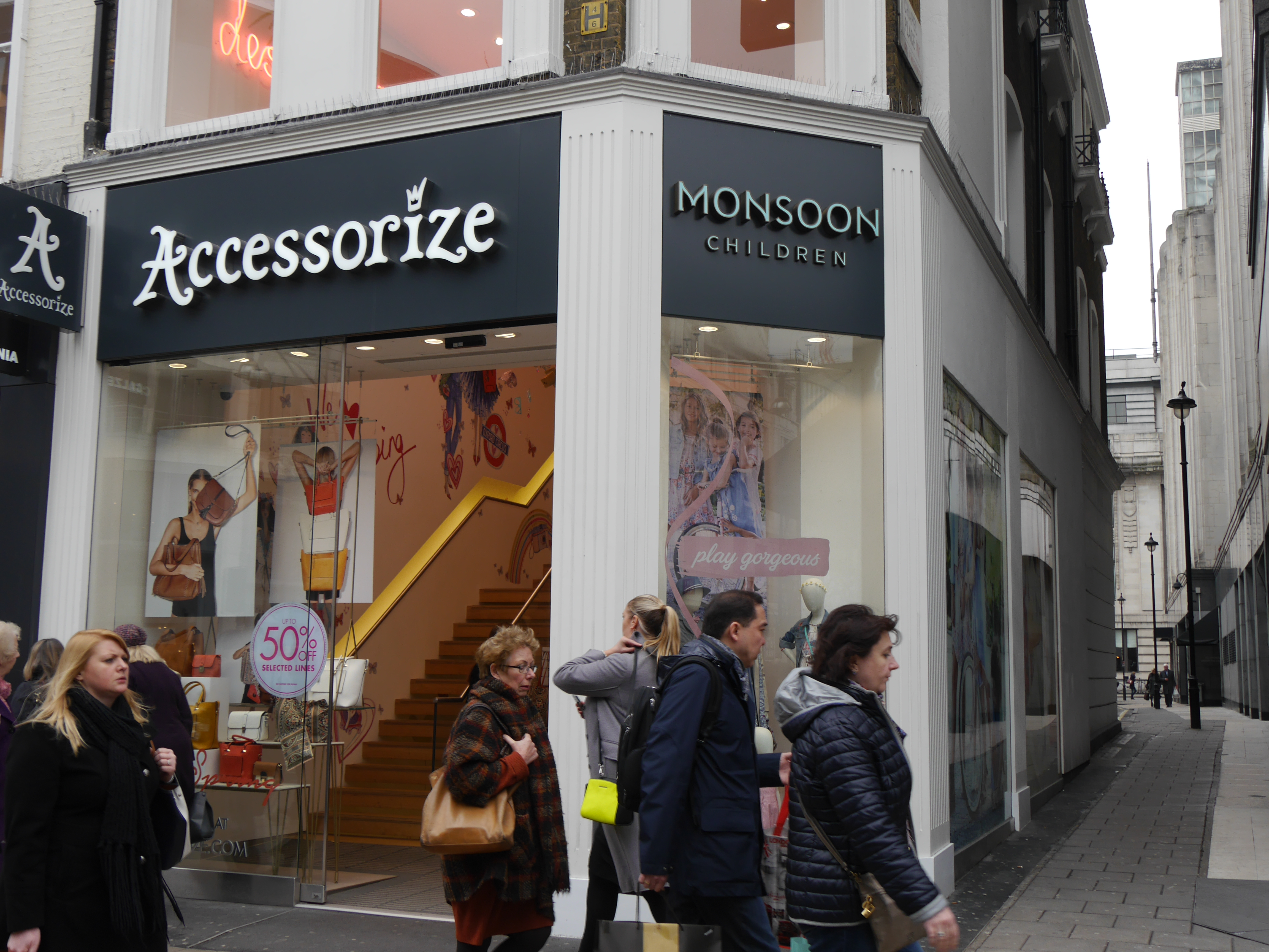 Oxford Street, London, March 2016